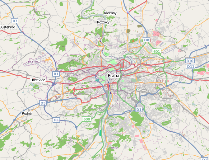 OpenStreetMap image of map of Prague, 50°04′19″N 14°28′52″E / 50.072°N 14.481°E, from OpenStreetMap cut-out (or derivative work based on it): without further description This cut-out may be incomplete, and may contain errors, or may be obsolete. Don't rely solely on it for navigation. See the image in the present state and its original context on the OpenStreetMap wiki page for Osm-200804-praha.png